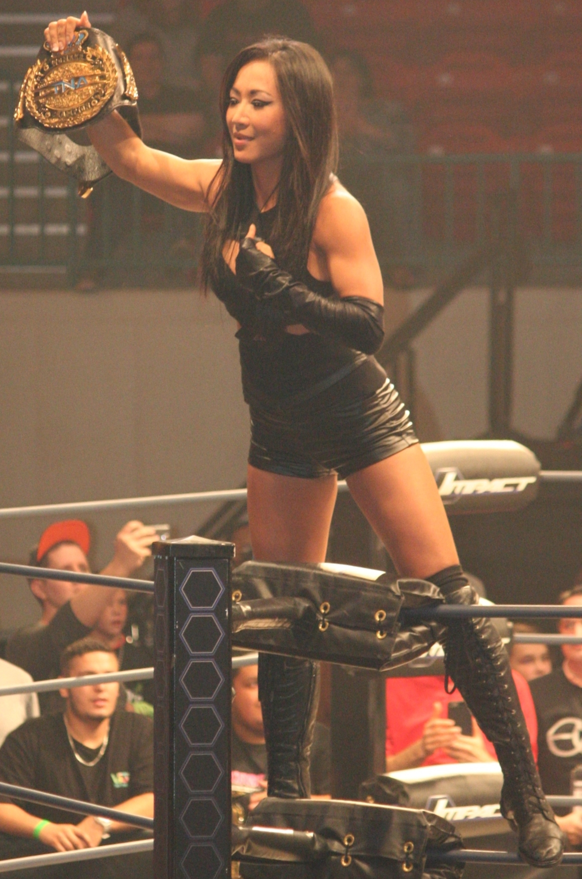 Gail Kim as TNA Knockouts Champion at Bound for Glory in 2015.